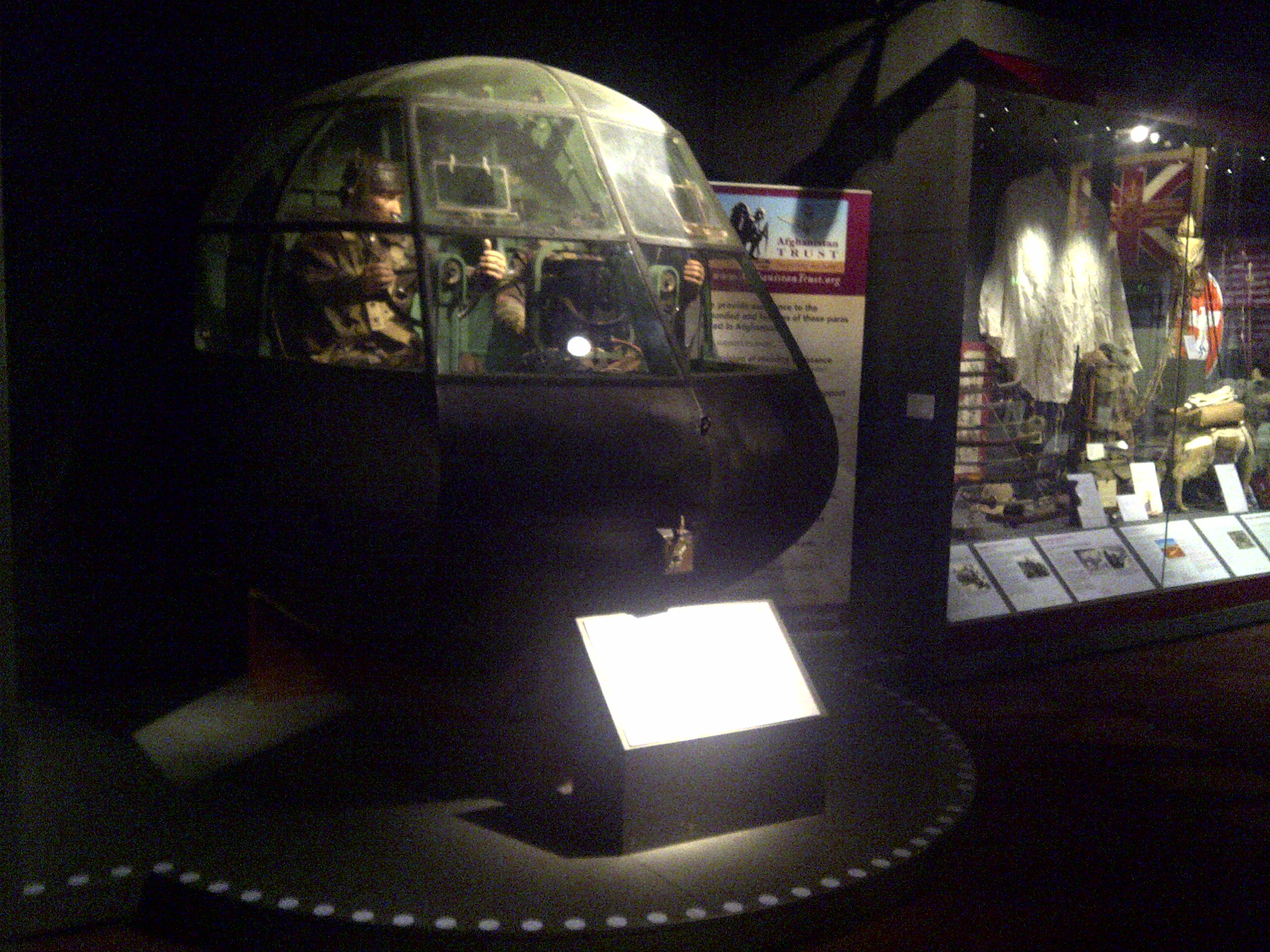 Exhibit Gallery at the Parachute Regiment and Airborne Forces Museum at the Imperial War Museum Duxford